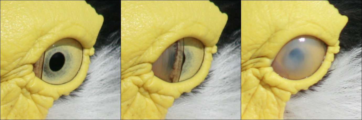 The blinking eye of a Masked Lapwing in Cairns, Queensland, Australia. The nictitating membrane closes from only one side, and is translucent. The eyelids themselves do not close during blinking, but do so for sleep.